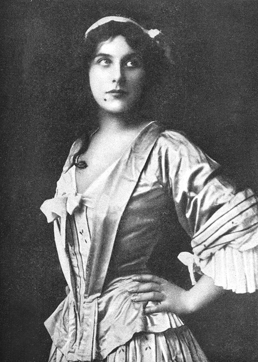 Geraldine Farrar playing the lead in the opera Manon (1909 at the Metropolitan Opera, or 1912).